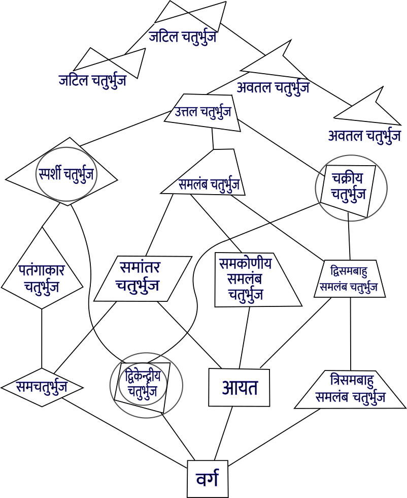 Quadrilateral hierarchy hi png